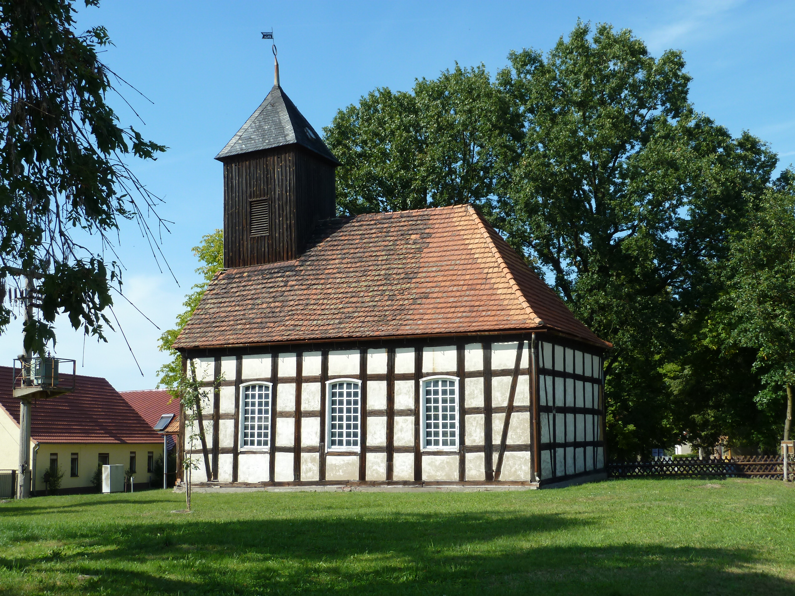 Church of Klein Muckrow, Friedland, Brandenburg, Germany